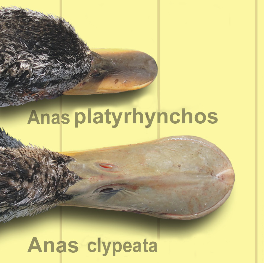 Head of a Northern Shoveler (Anas clypeata) compared with a head of Common Mallard (Anas platyrhynchos ; Filter feeder) (Russia, Moscow Region)